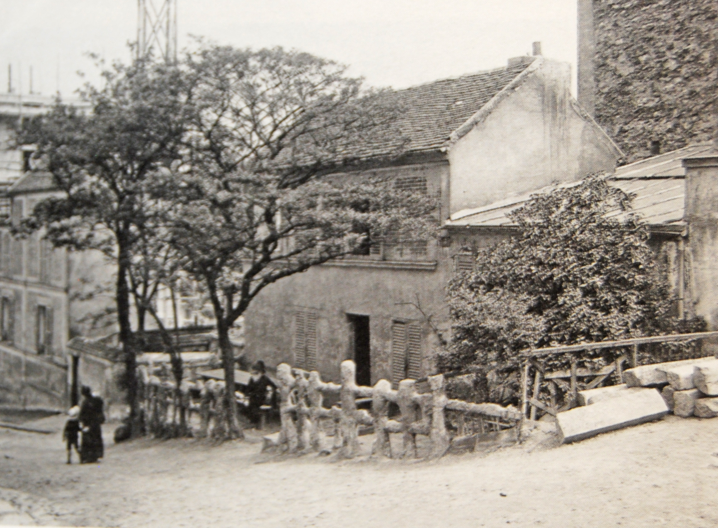 Image of the famous Cabaret le lapin Agile in montmartre paris circa 1913 where Modigliani, Rivera, Soutine, Picasso and all the great masters of the time spend the nights.